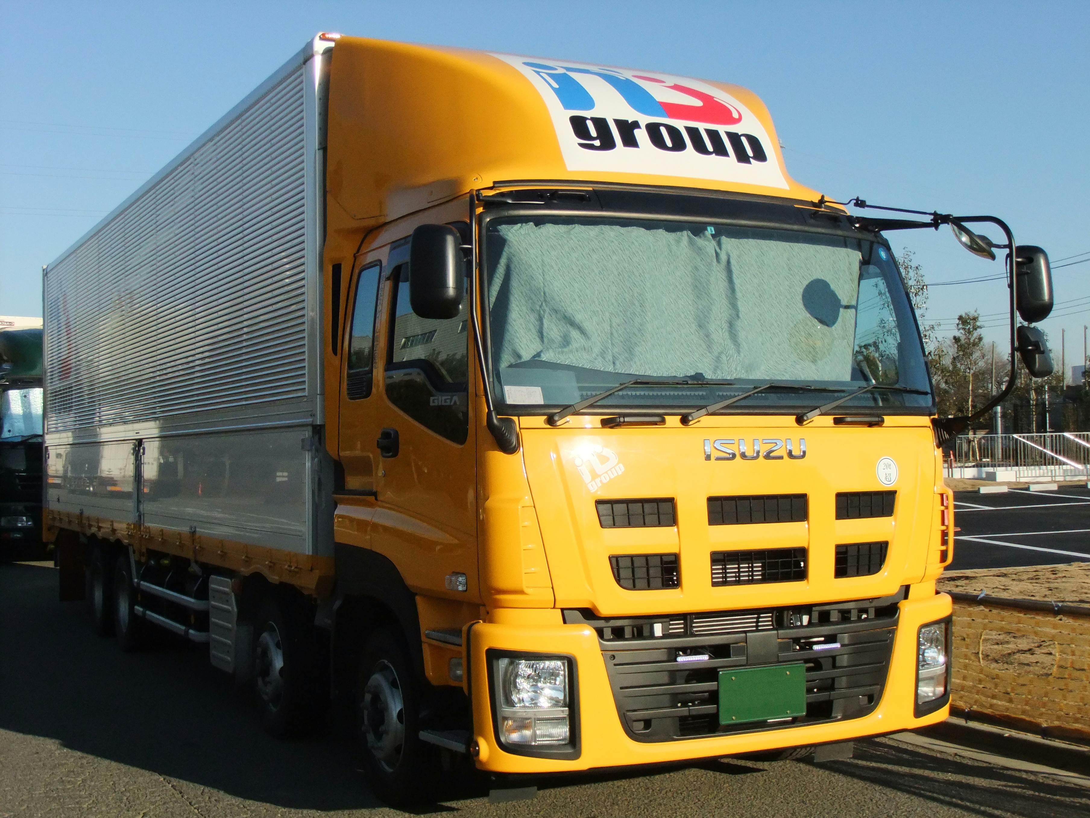 ISUZU, C-Series / GIGA, Full-cab Cargo truck, （There are a country and a region sold as C-series excluding a Japanese market, too.）